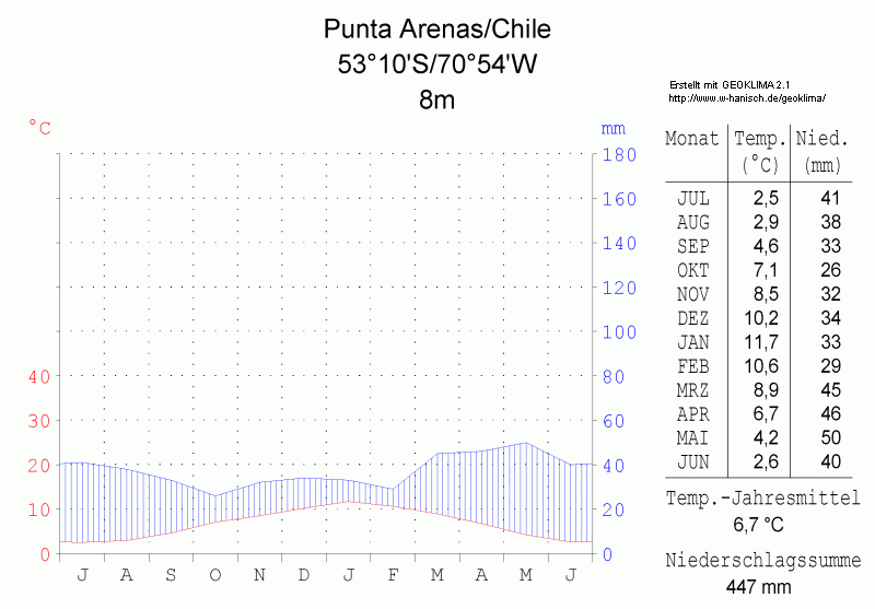 climate chart in the format by Walther and Lieth, metric, °Celsisus and millimeters, made with Geoklima 2.1